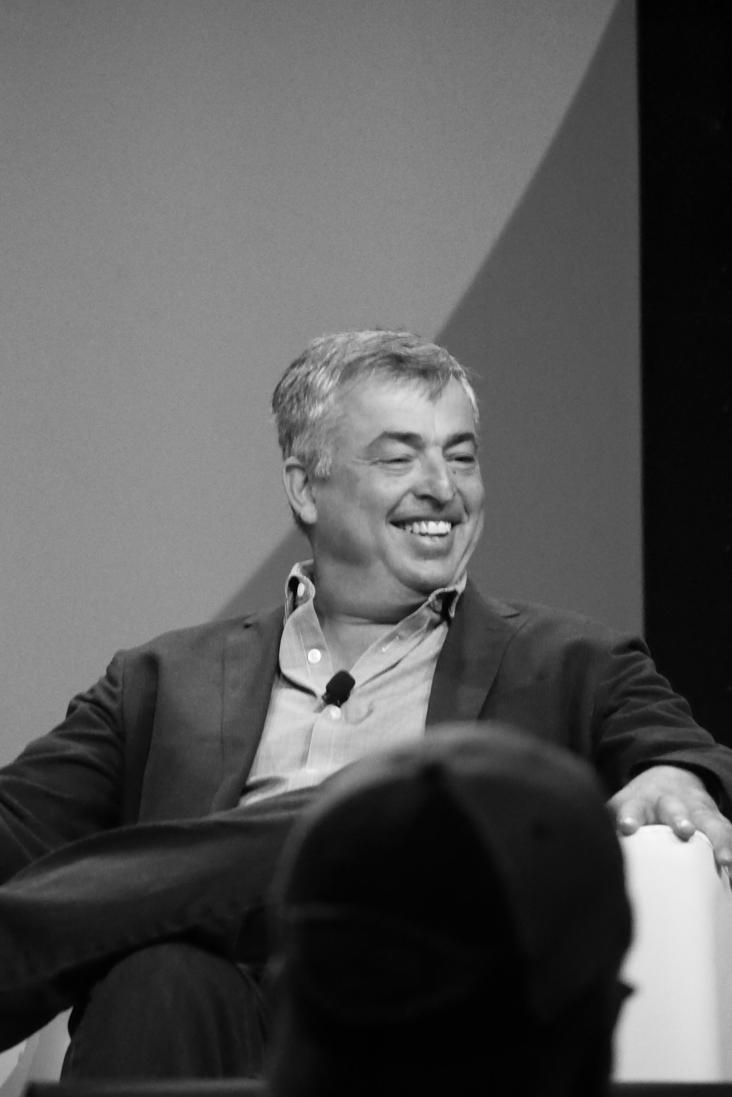 DYLAN BYERS CNN, EDDY CUE Apple